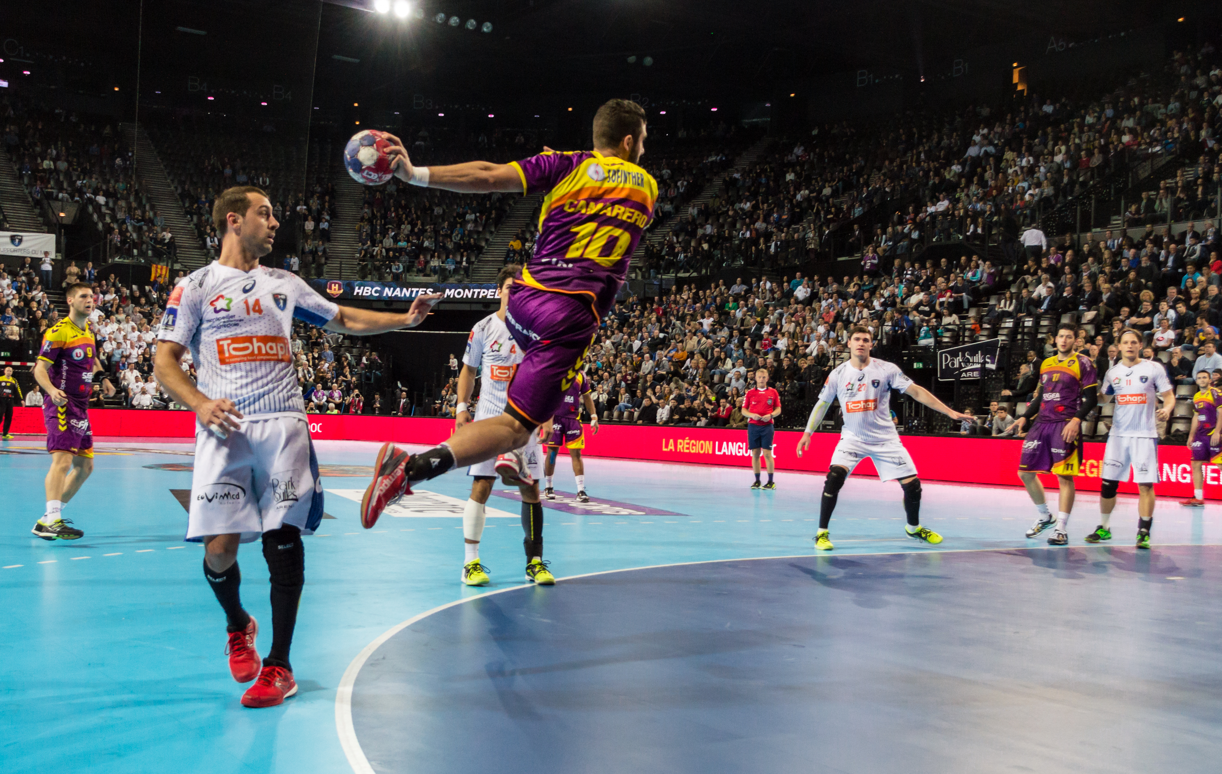 Semi-finale of the Handball League Cup, between Fenix HBC Nantes and Montpellier Handball: Jordan Camarero shots.